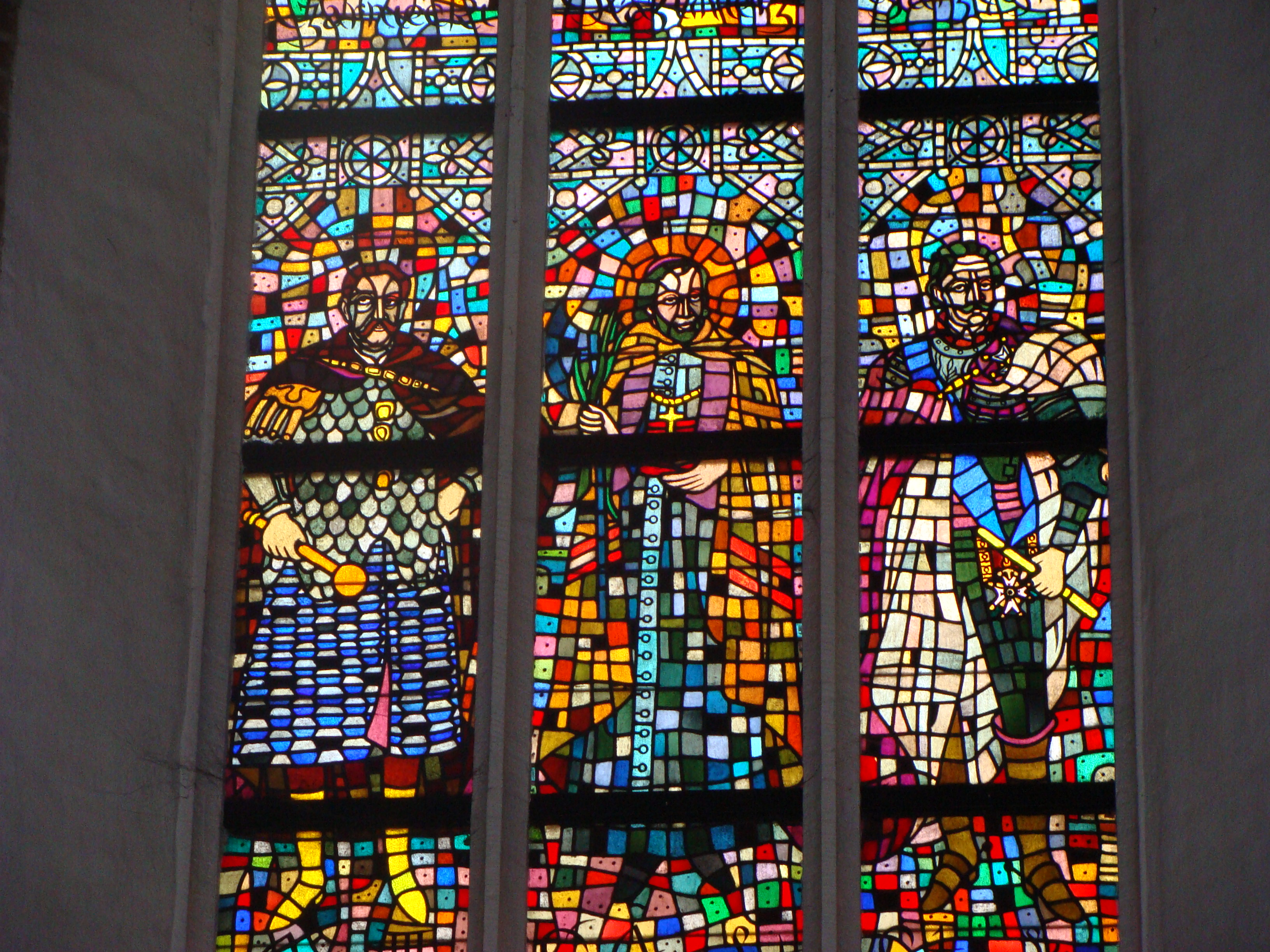 Warsaw' s Cathedral, stained glass created by Waclaw Taranczewski